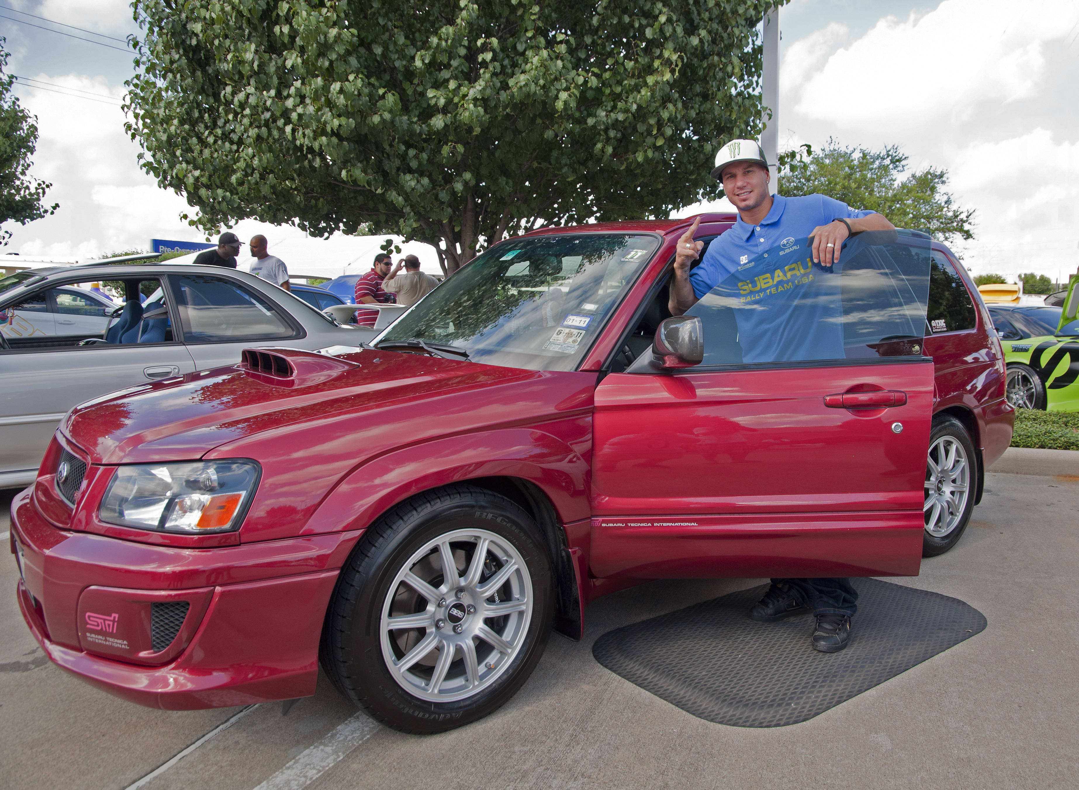 At the Gillman Subaru Big Event 2 - Dave Mirra, Subaru Rally Driver and Freestyle BMX Bike Extraordinaire.